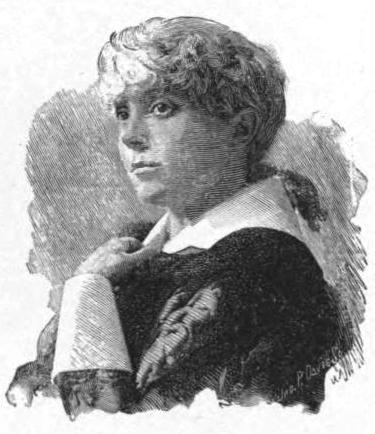 An illustration of a young white woman wearing a costume with white collar and cuffs.